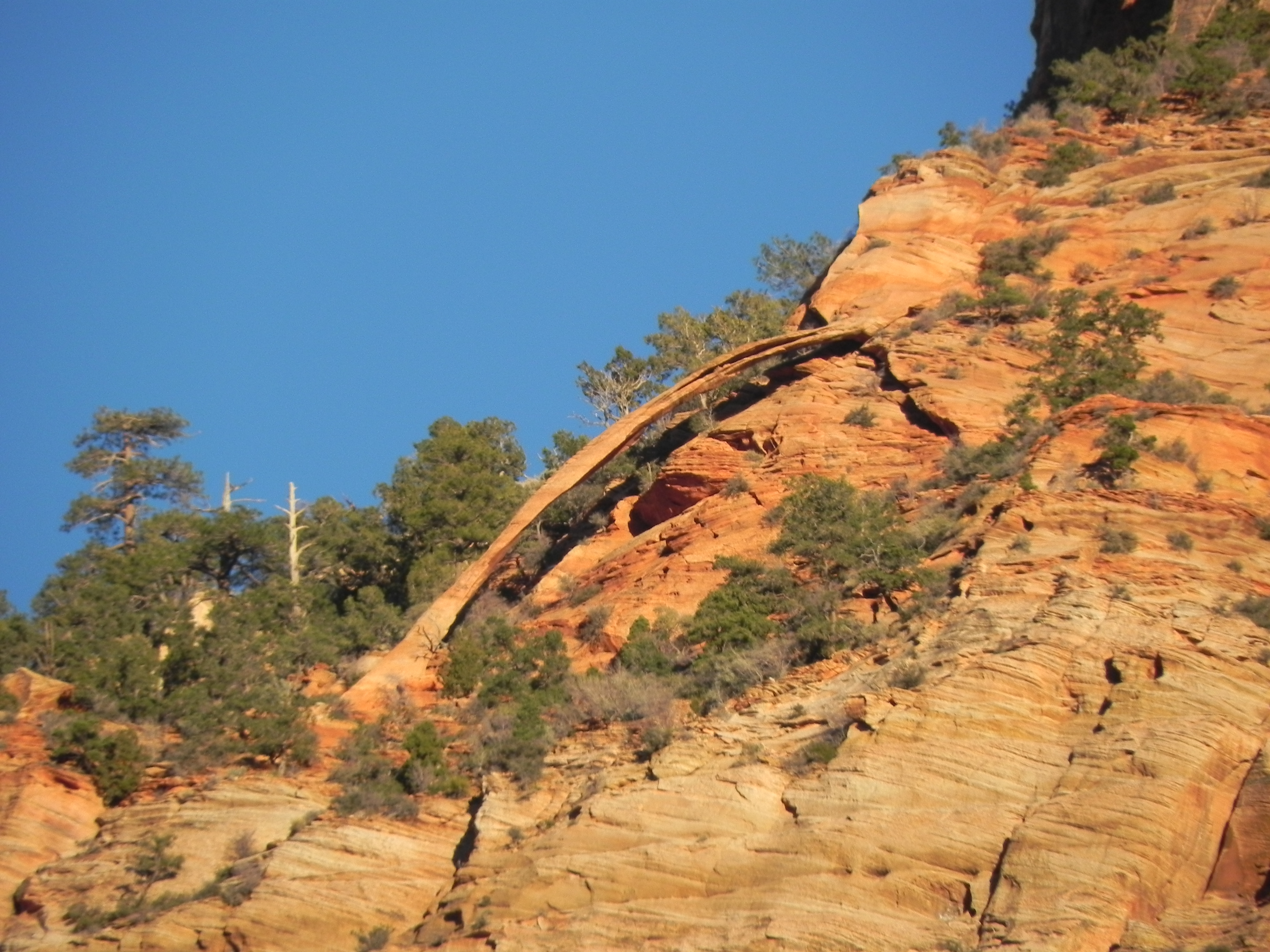 Crawford Arch on Bridge Mountain in Zion National Park, Utah.